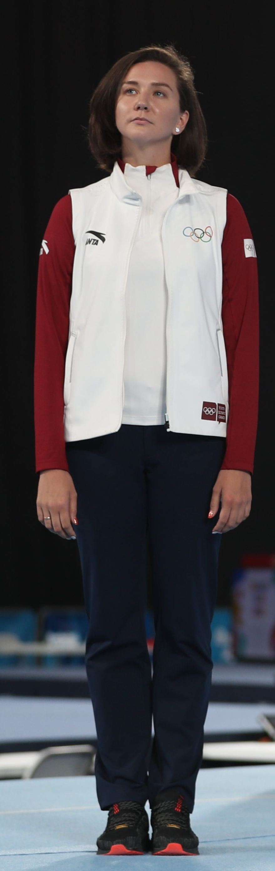 Victory ceremony for the vault apparatus final of the girls' artistic gymnastics at the 2018 Summer Youth Olympics in Buenos Aires on 13 October 2018.